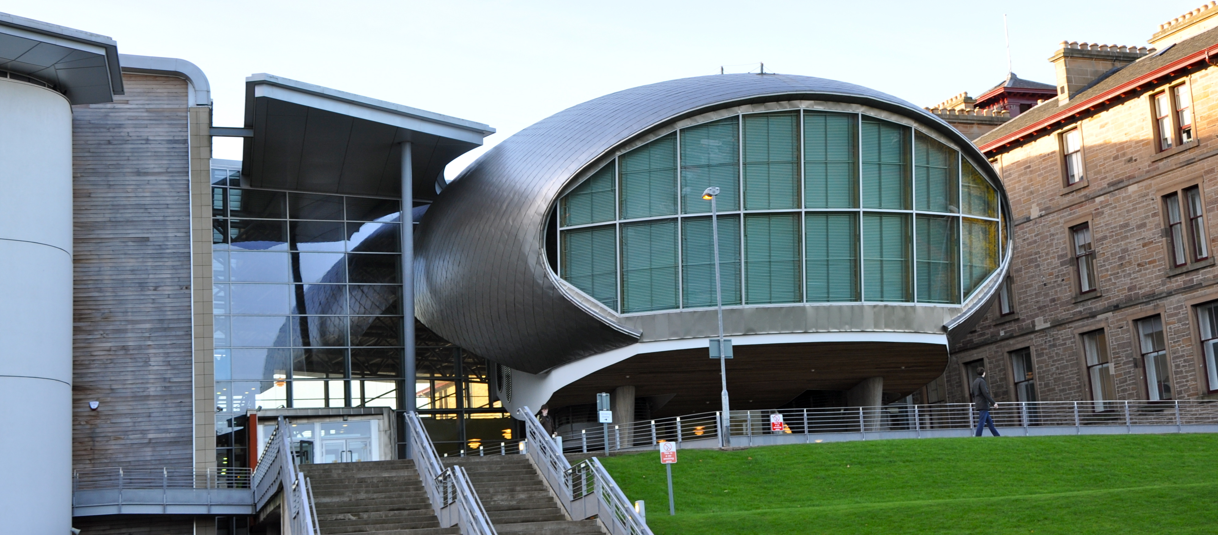 Edinburgh Napier University, Craiglockhart Campus